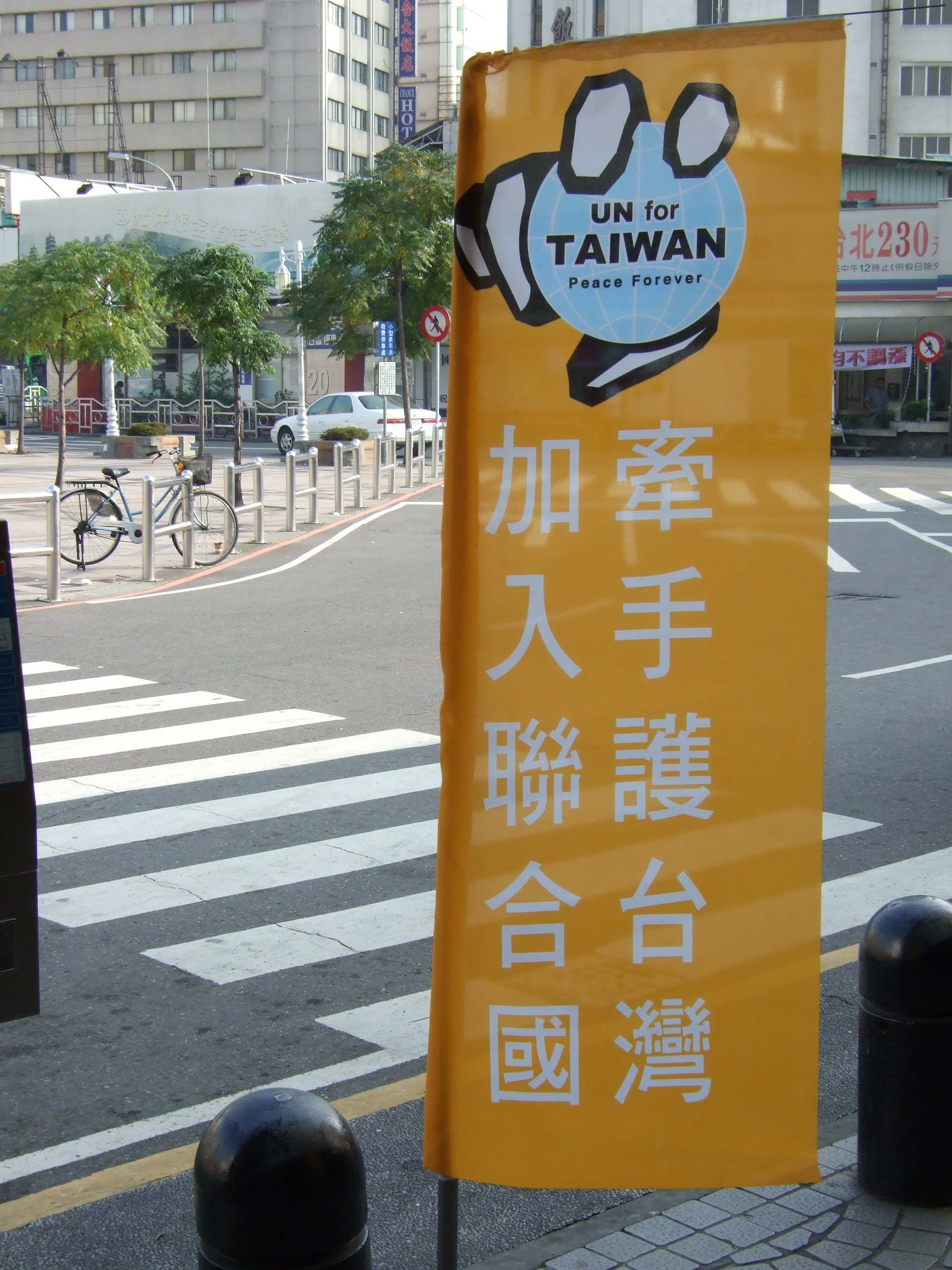 A "UN for Taiwan" nobori near of TRA Taichung Station.中文（台灣）: 台灣鐵路管理局台中車站一帶的「牽手護台灣，加入聯合國」立幟。